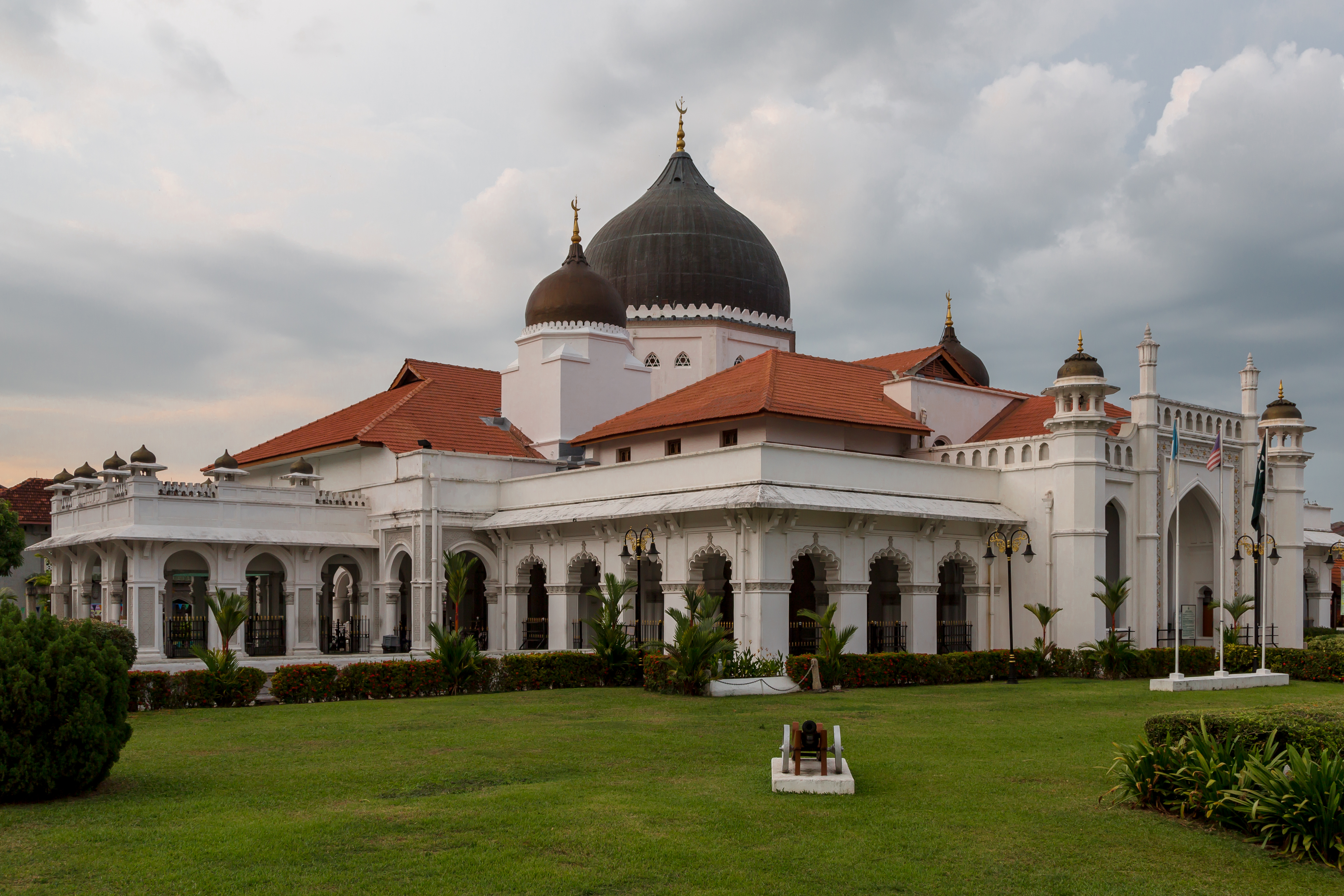 Penang, Malaysia: Kapitan Keling Mosque